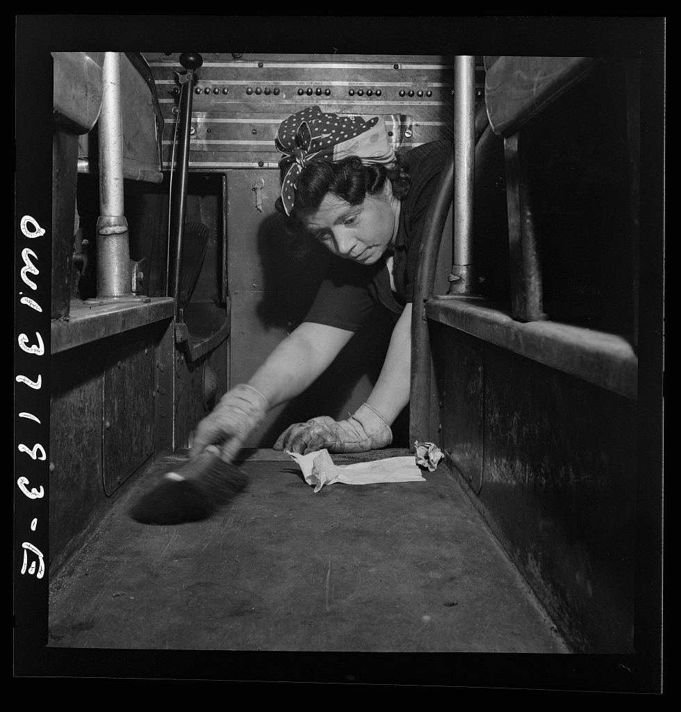 Pittsburgh, Pennsylvania. A charwoman sweeping the floor of a bus at the Greyhound garage